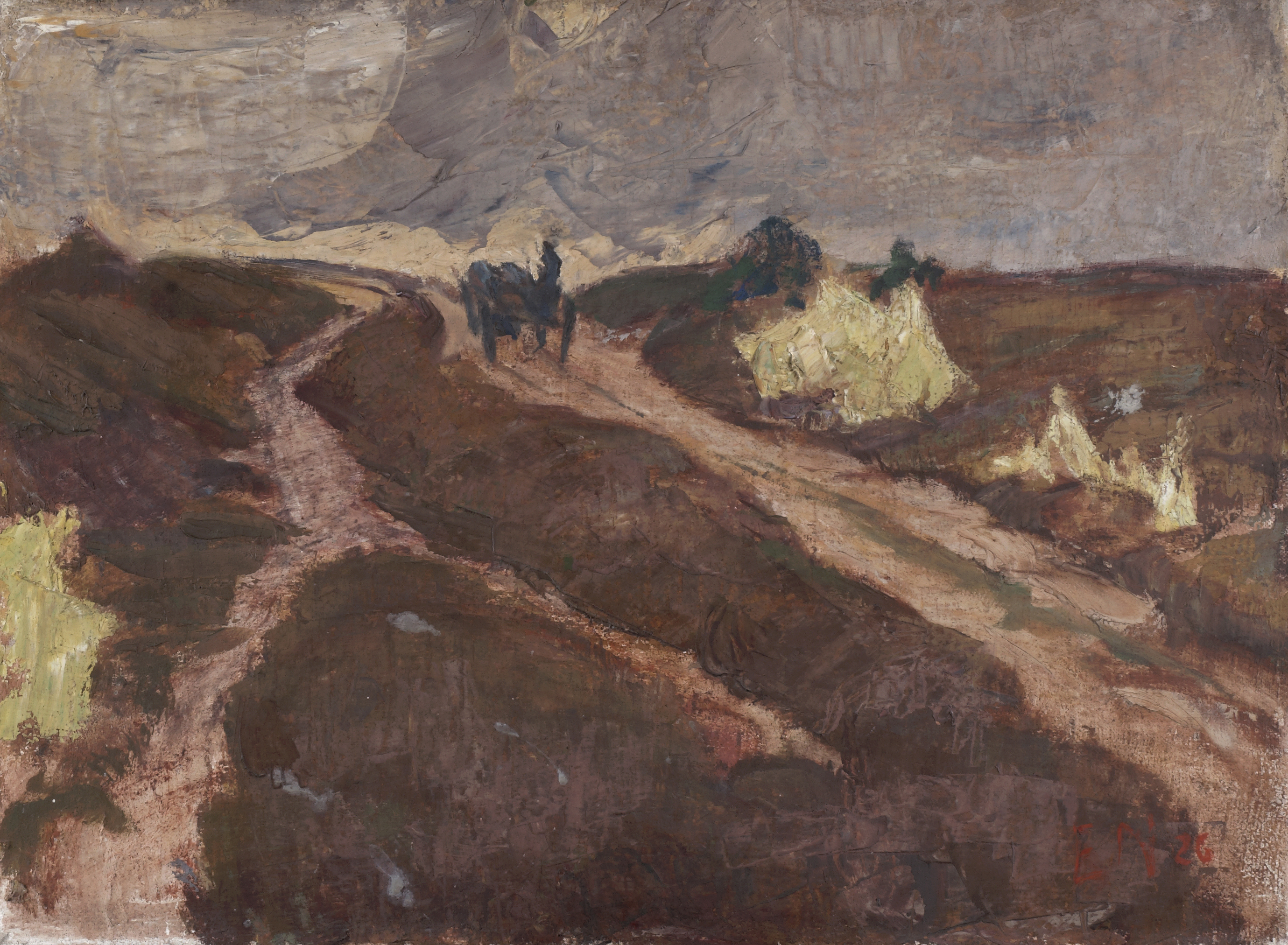 Elisabeth Noltenius, Heideweg, 1926. Oil on canvas. Inv.-No.: 1018-1970/5. Kunsthalle Bremen – Der Kunstverein in Bremen, Photo: Karen Blindow.